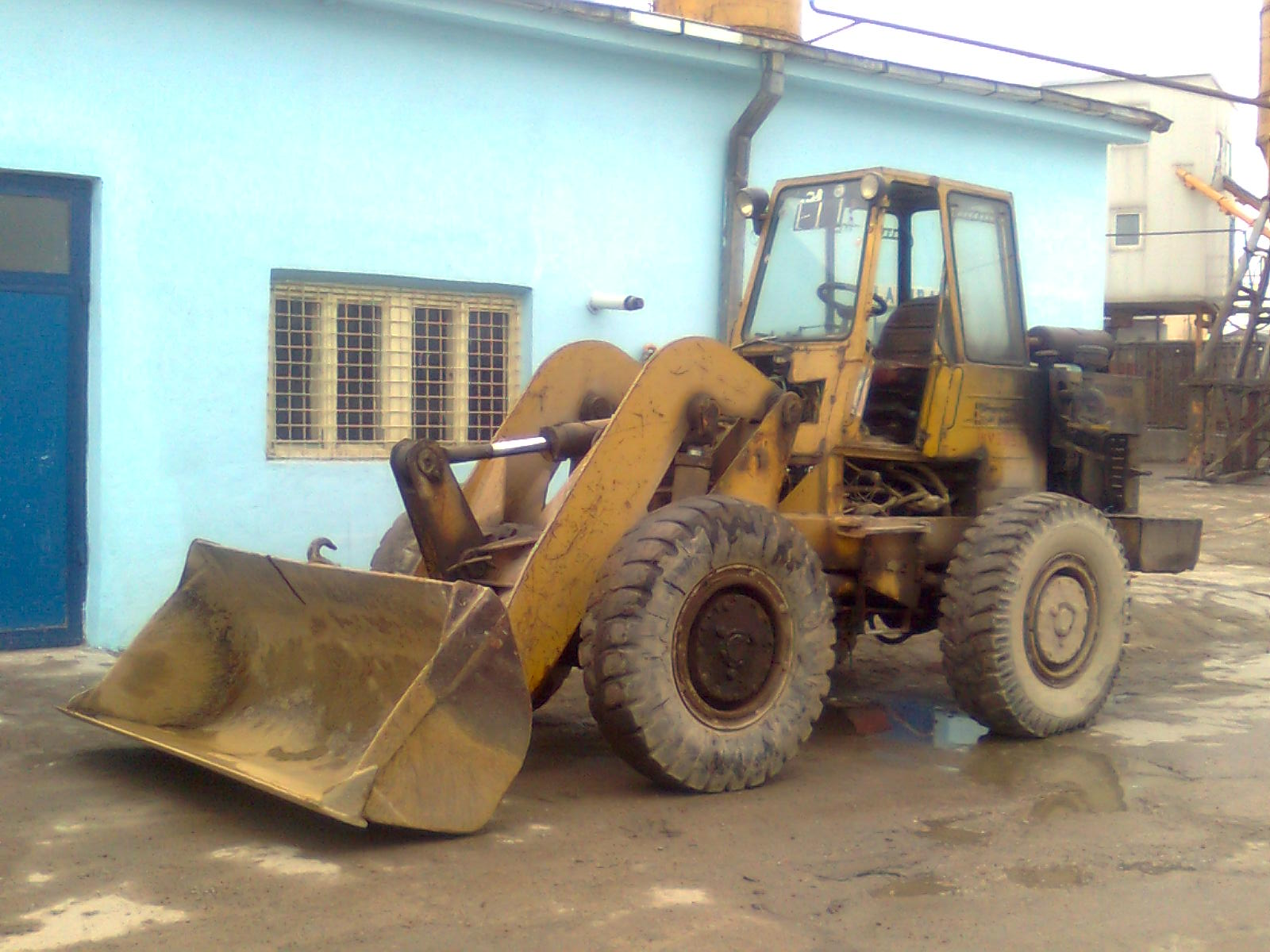 Polish Bumar Fadroma Ł 200 loader.